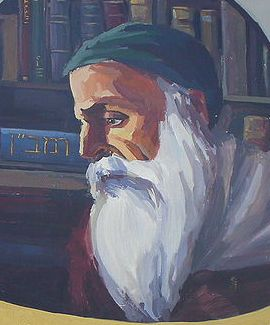 Wall painting of Rabbi Moses ben Nachman , at the wall of Akko's Auditorium. Don't know the painters name though... More information (in Hebrew) about the paintings can be found here